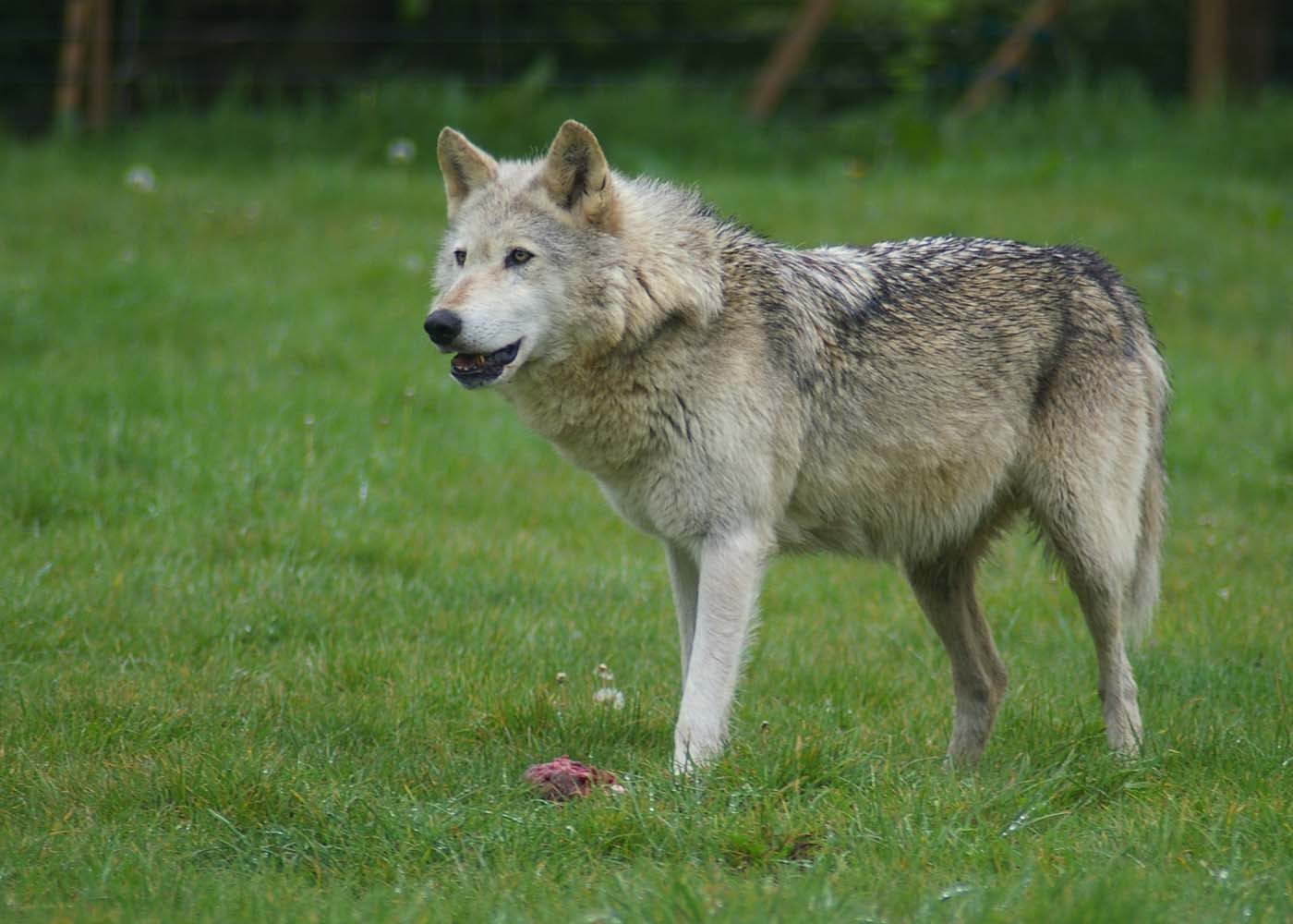 Wolves can be seen roaming freely around the safari reserves at Woburn Safari Park.